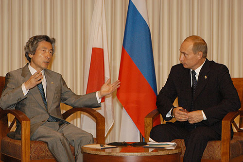 BANGKOK. President Putin with Japanese Prime Minister Junichiro Koizumi.